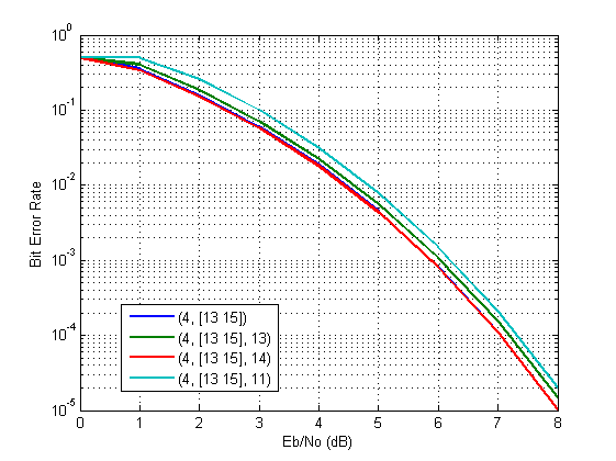 Generated with help to MatLab 2014a.